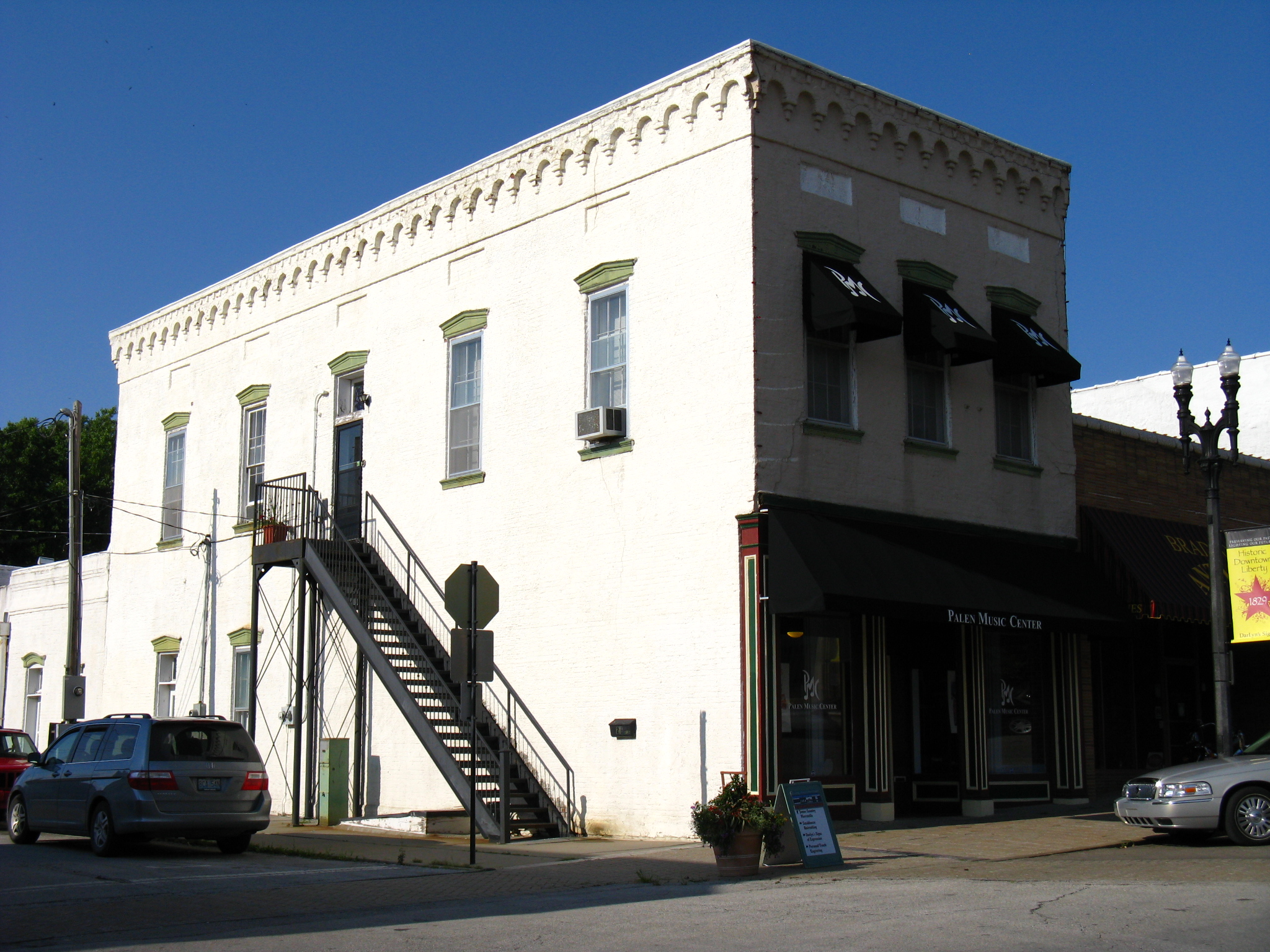 The Miller Building at 2 East Franklin Street in Liberty, Missouri. It was built in 1868 and is listed on the National Register of Historic Places.